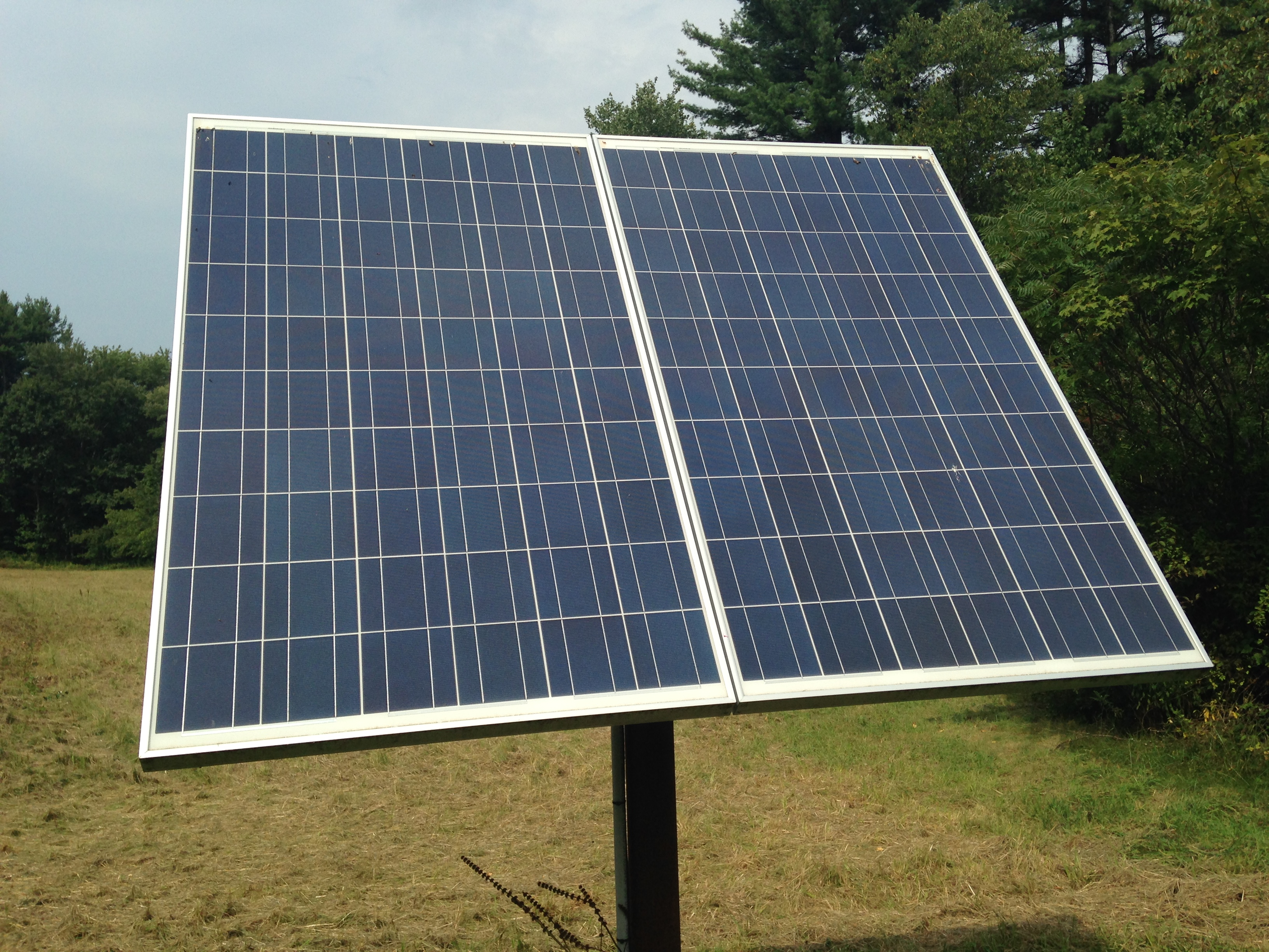 A solar cell panel in Hollis, New Hampshire